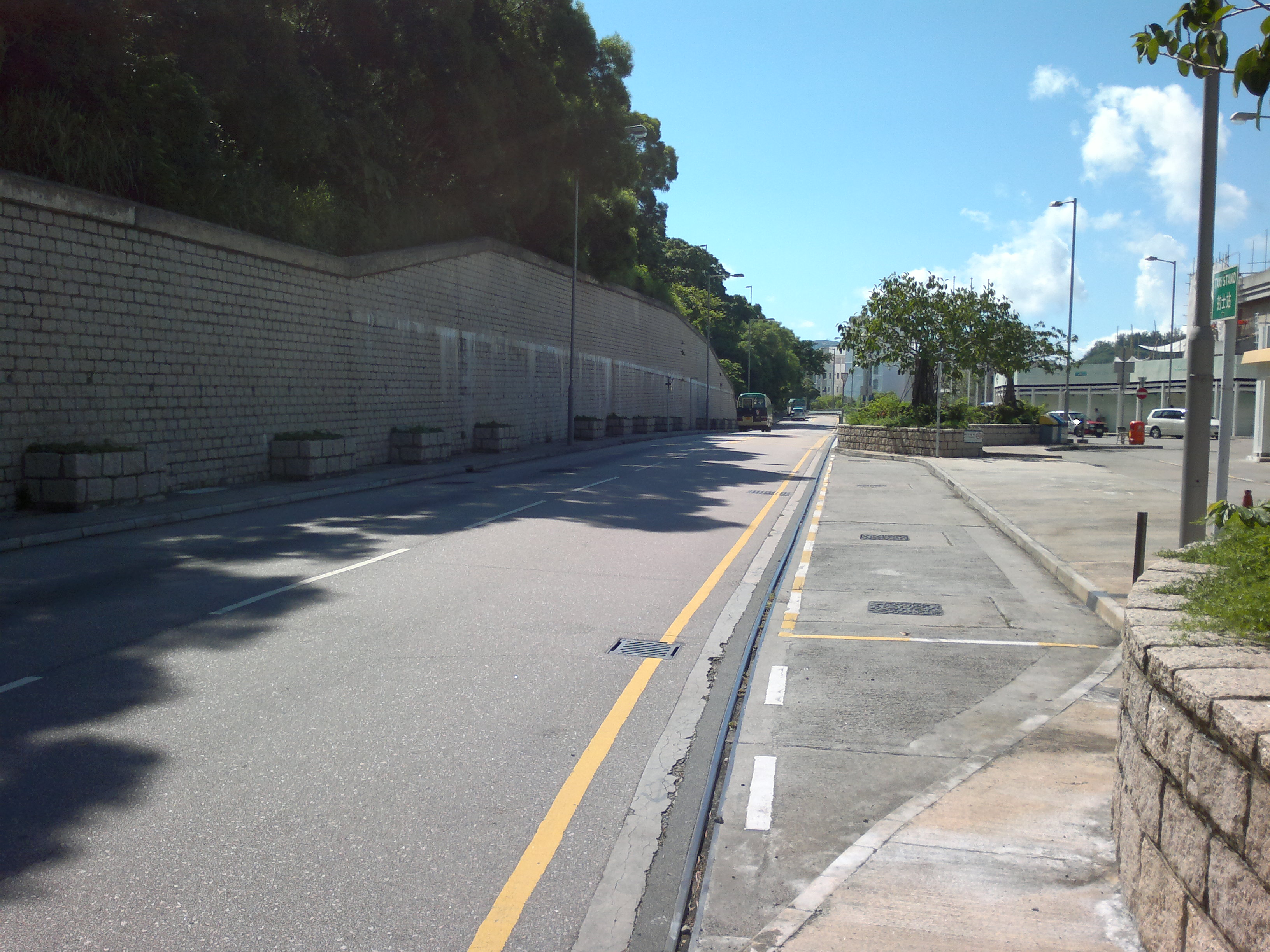 Carmel Road near Stanley Plaza